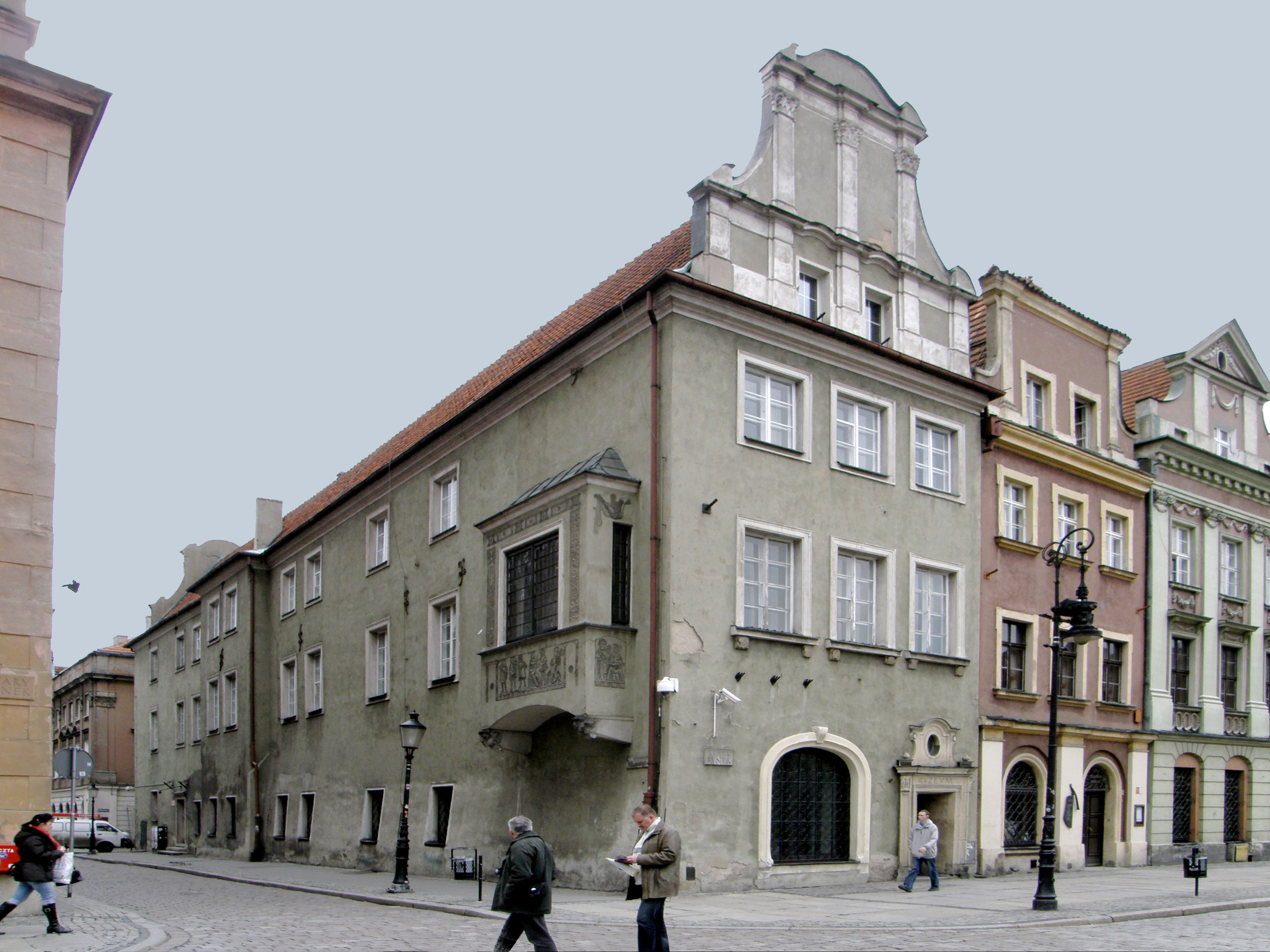 Museum of Musical Instruments in Poznań